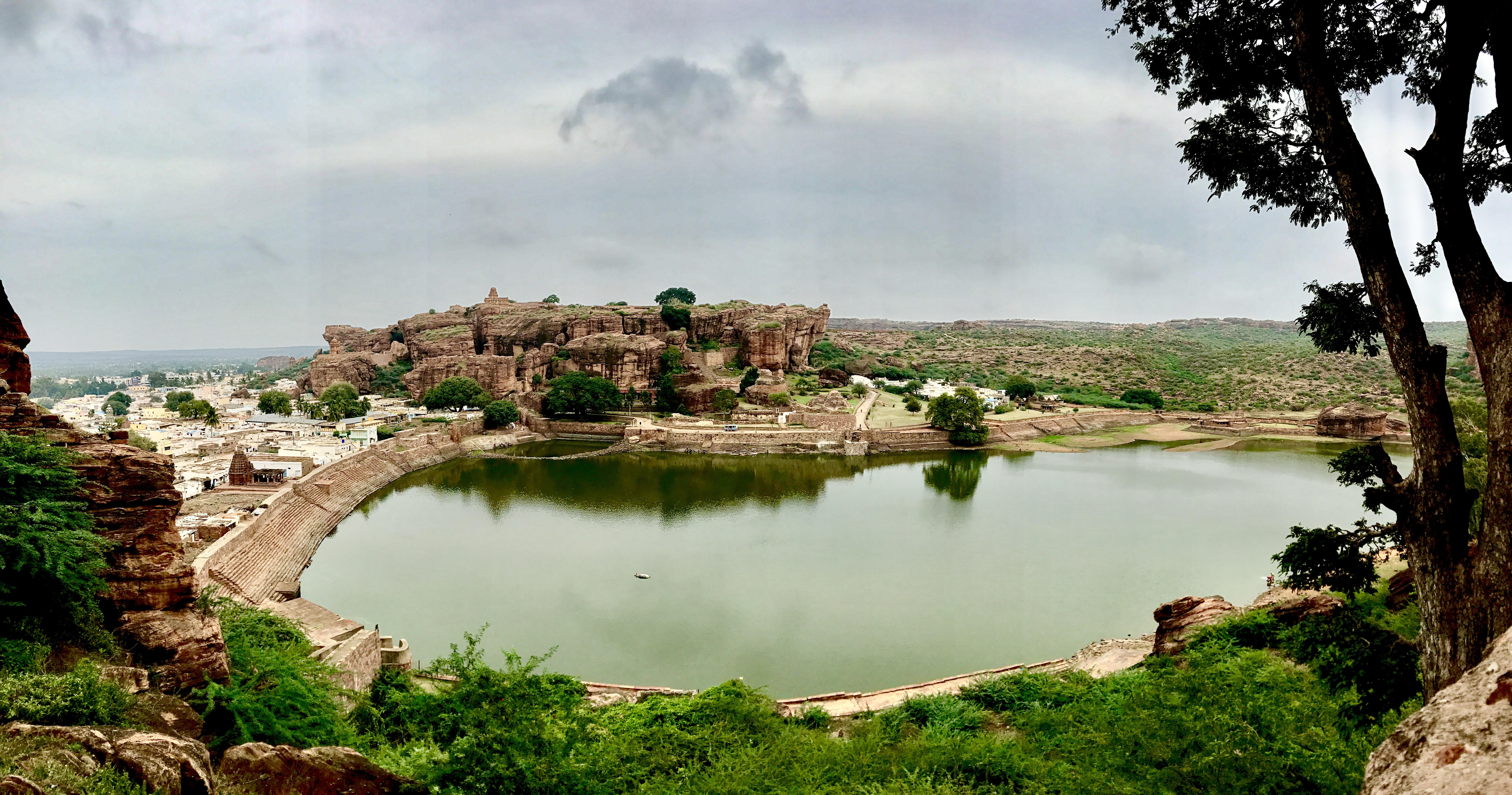 Badami Lake view from cave temples